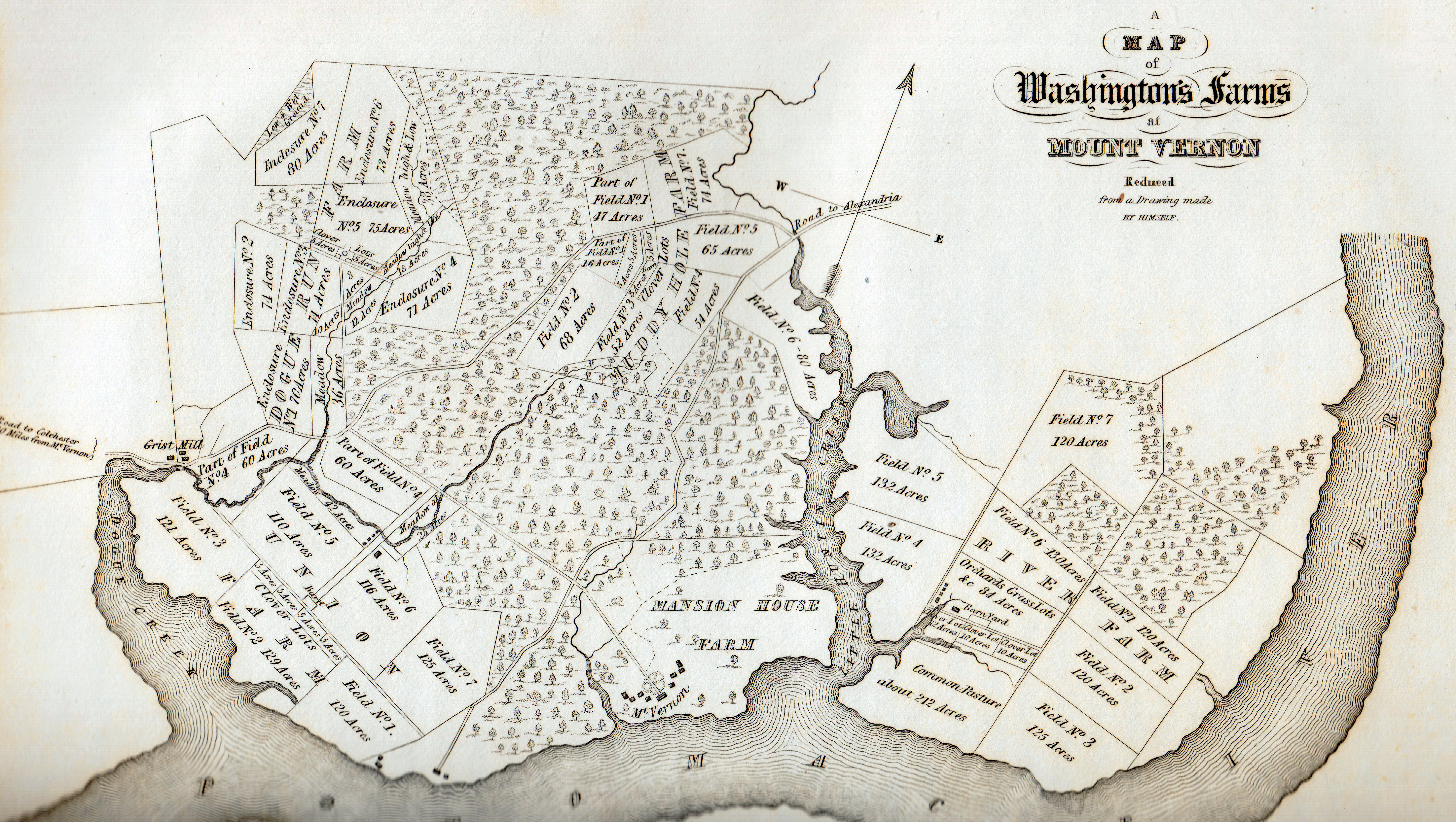 A Map of Washington's Farms at Mt. Vernon reduced from a drawing made by himself. (steel engraving)